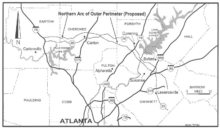 State transportation officials want to improve east-west access across the northern fringes of Atlanta. This map shows the proximity of the former Northern Arc to Ga. 20, which is now the subject of discussion for expansion. Credit: Truman Hartshorn study, GSU